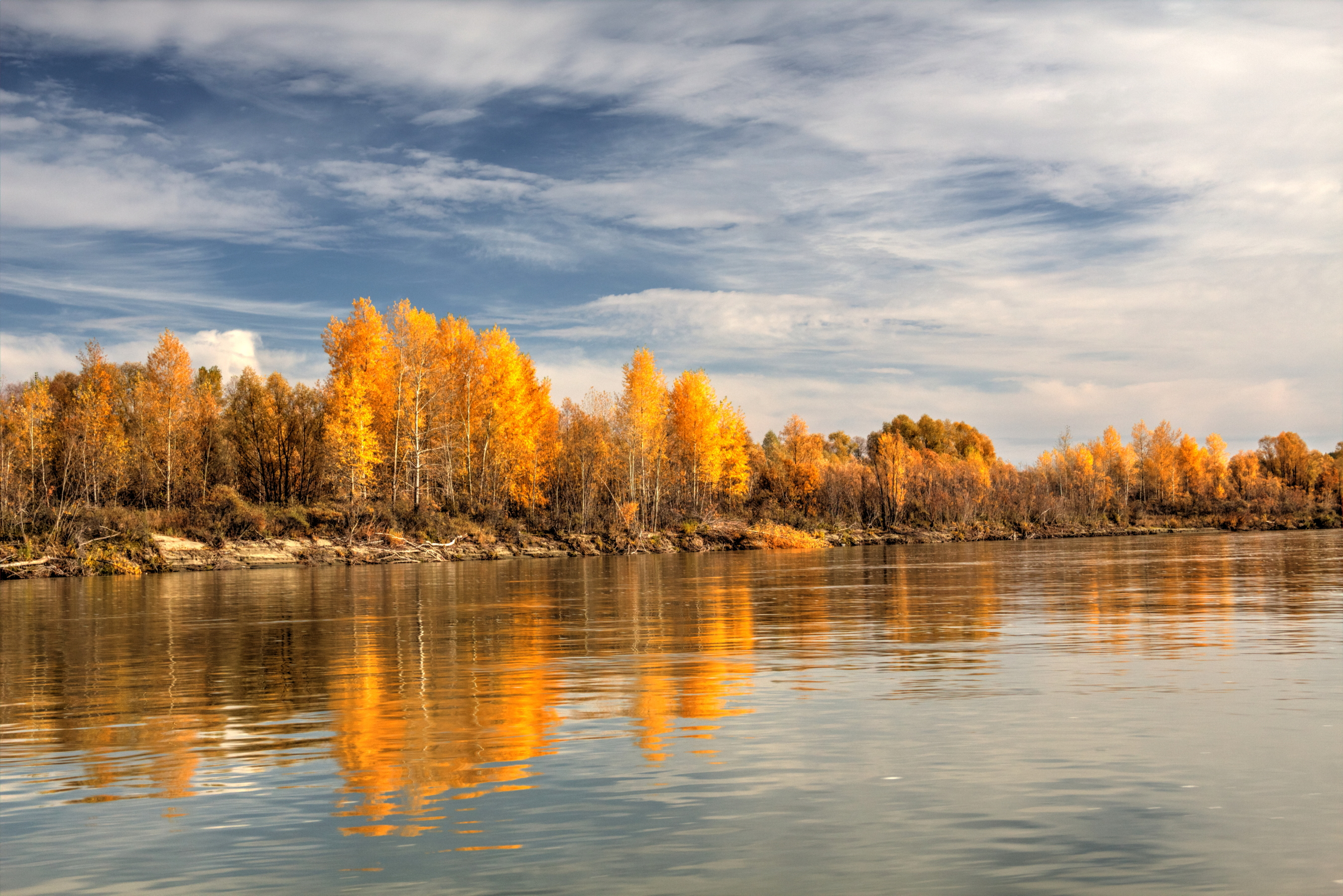 Autumn in Bystroistokskiy district of Altai krai Russia